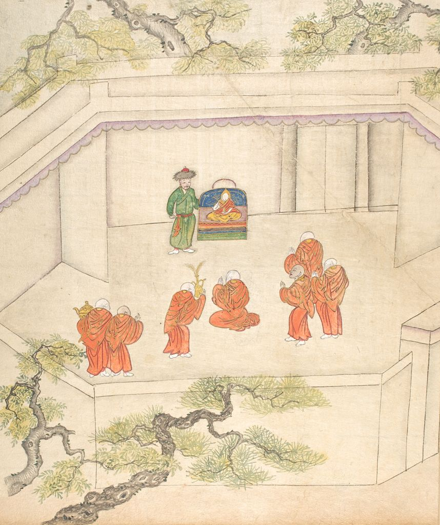 Finding a Dalai Lama (4/8) Qing Dynasty